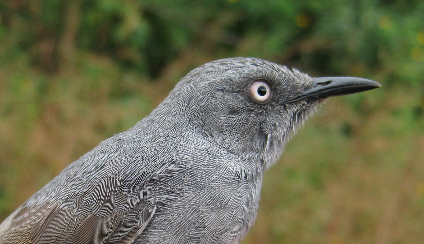 Sierra Leone Prinia (Schistolais leontica), Mt Nimba, Liberia